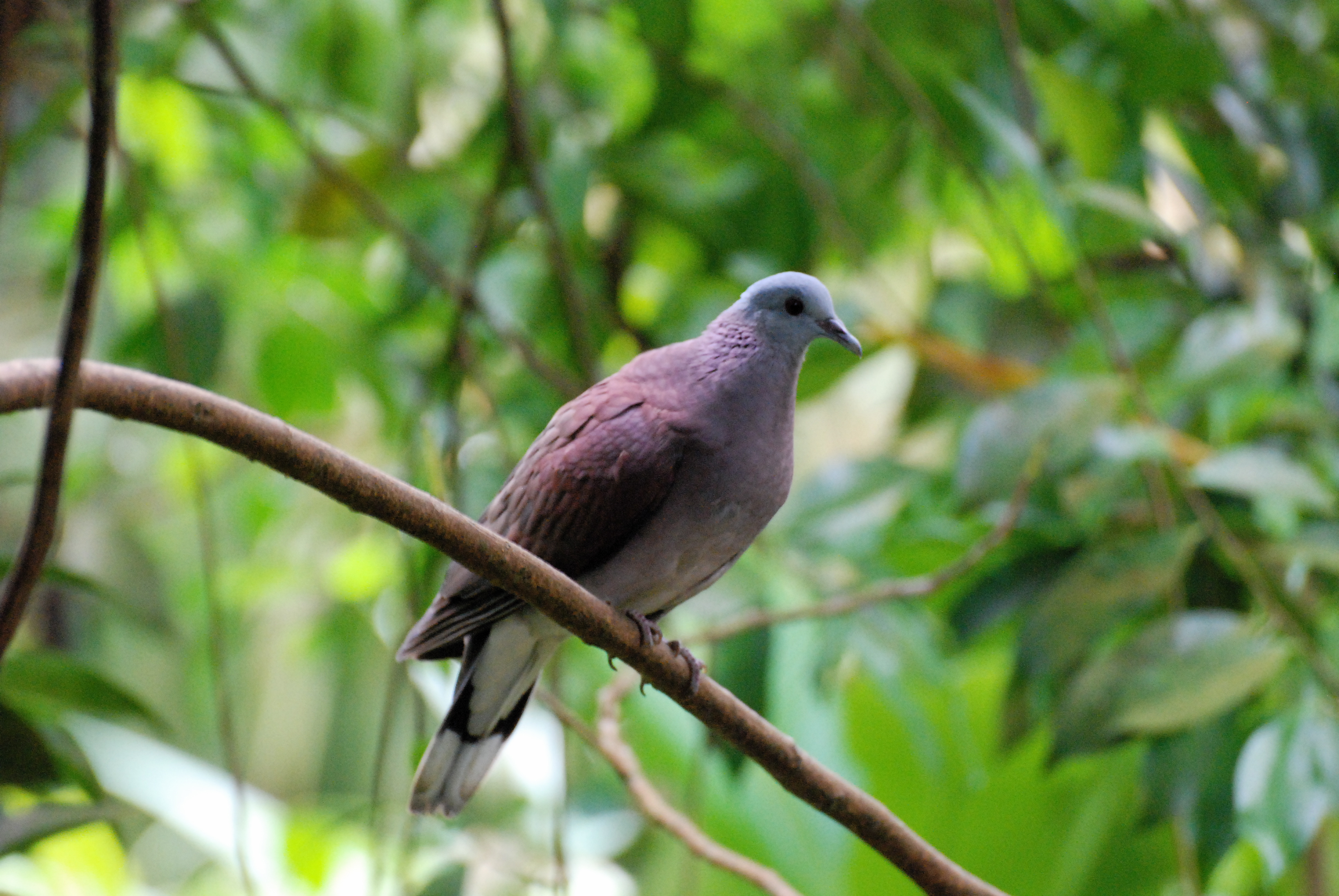 Madagascar Turtle-dove at Zürich Zoo, Switzerland. (nominate subspecies).